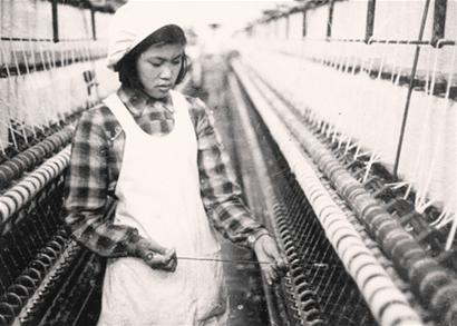 Hao Jianxiu, Chinese model worker and politician, working in a cotton mill